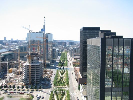 High rise in Brussels, Belgium.